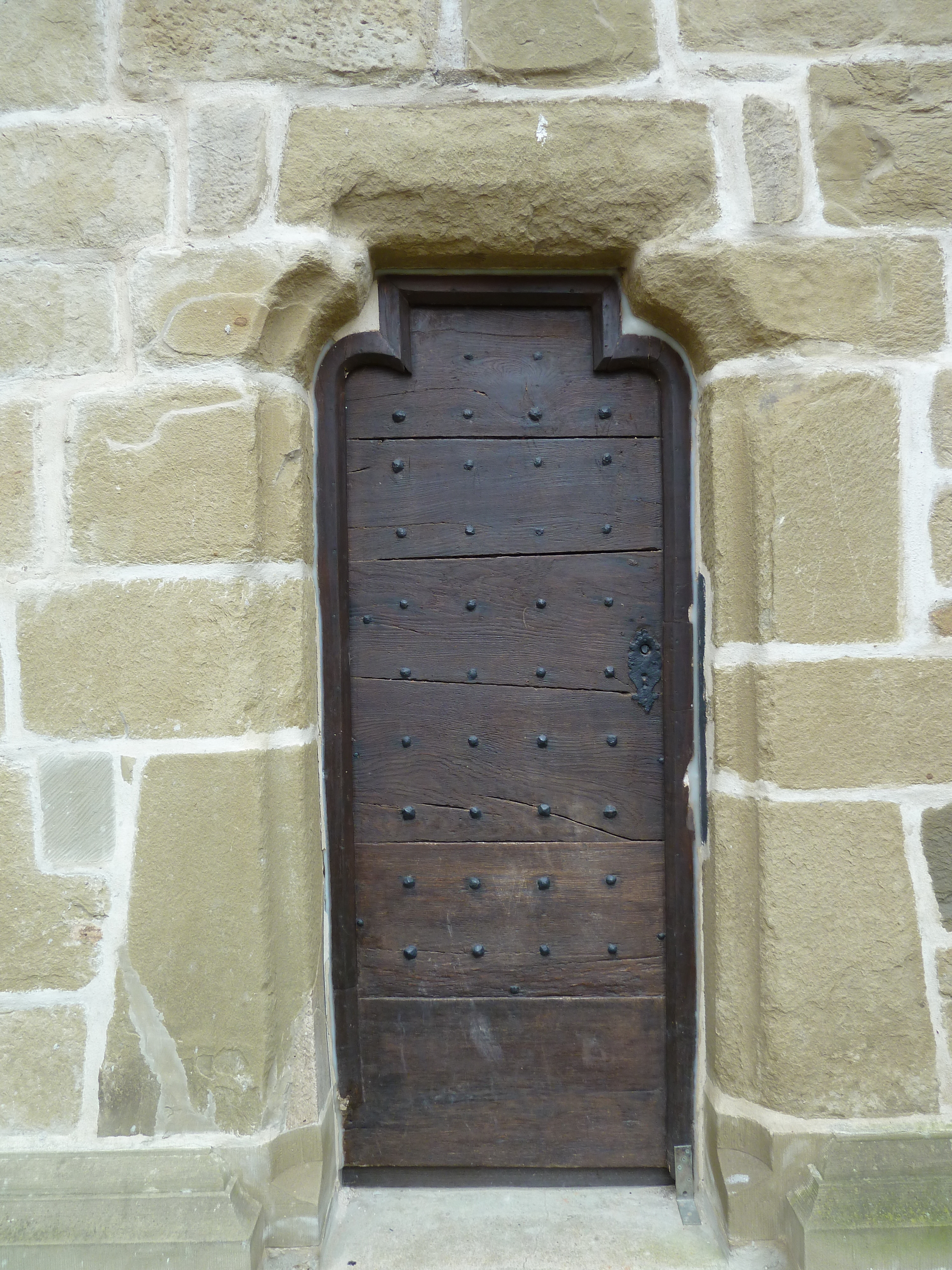 own file